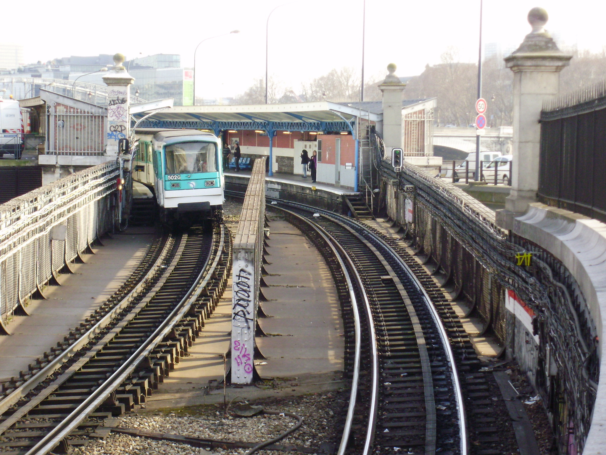 Morland rail-bridge, axial view, Paris, France